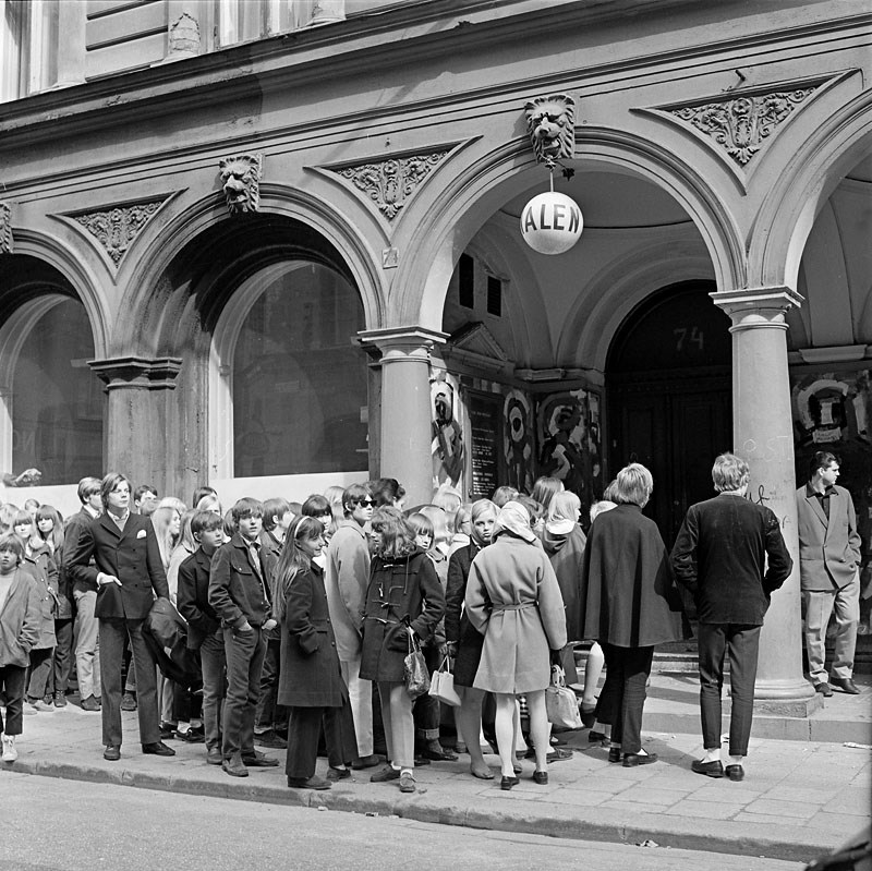 Image from Stockholm, Regeringsgatan 74, people queuing outside famous dance-hall Nalen last day before closing 1967. Photo: Petersens, Lennart af